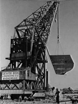 Cockatoo Island Dockyard, Sydney, NSW. 1943-02. A prefabricated false bow being lifted by the crane Titan for the heavy cruiser USS New Orleans (CA-32), under repair in Sutherland Dock after losing 150 feet of her bow from torpedo damage at the Battle of Tassafaronga.